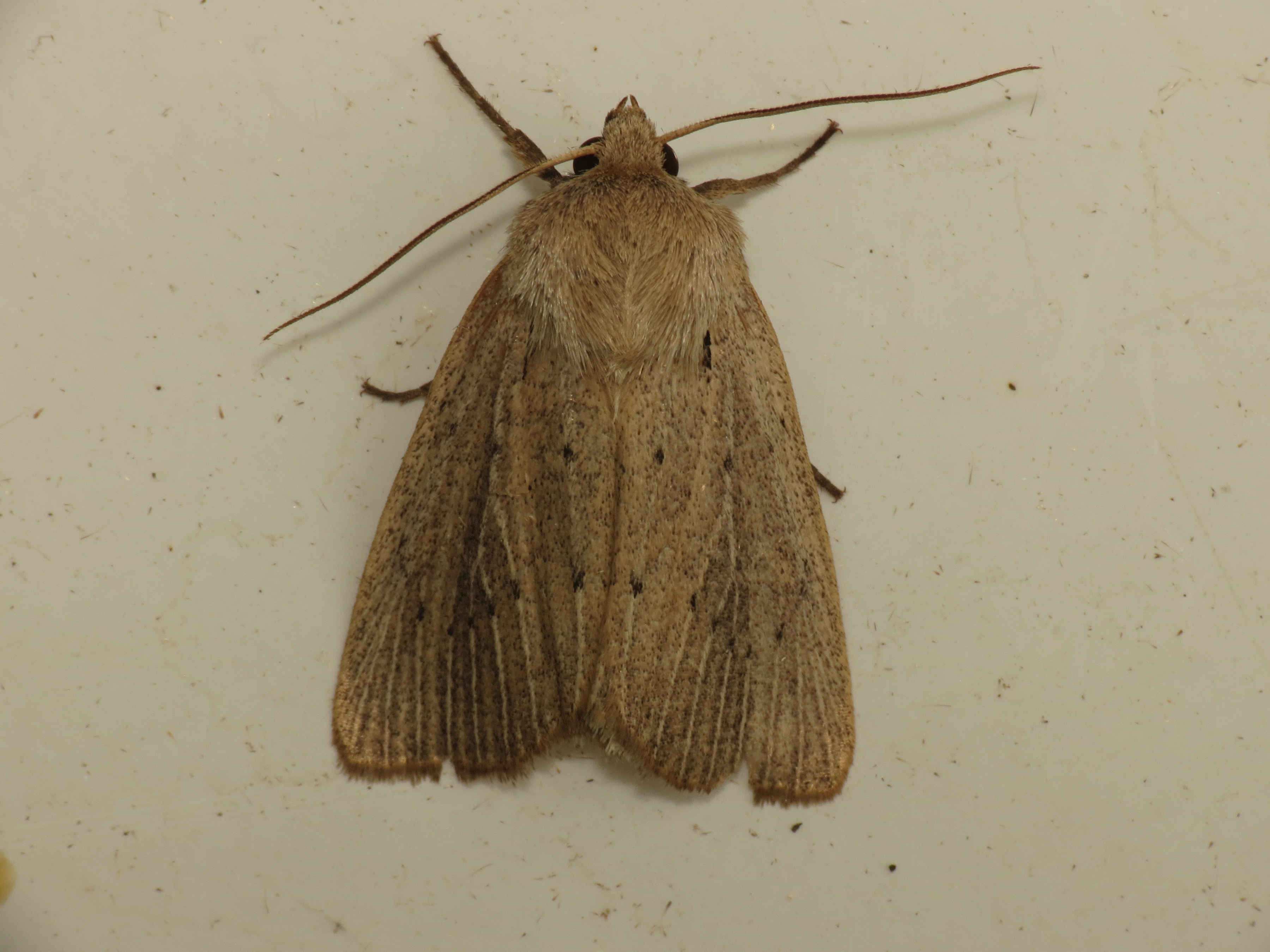 Protarchanara brevilinea (Fenn, 1864), Fenn's Wainscot, to Robinson trap, Søborg, Denmark, 27/28 July 2013